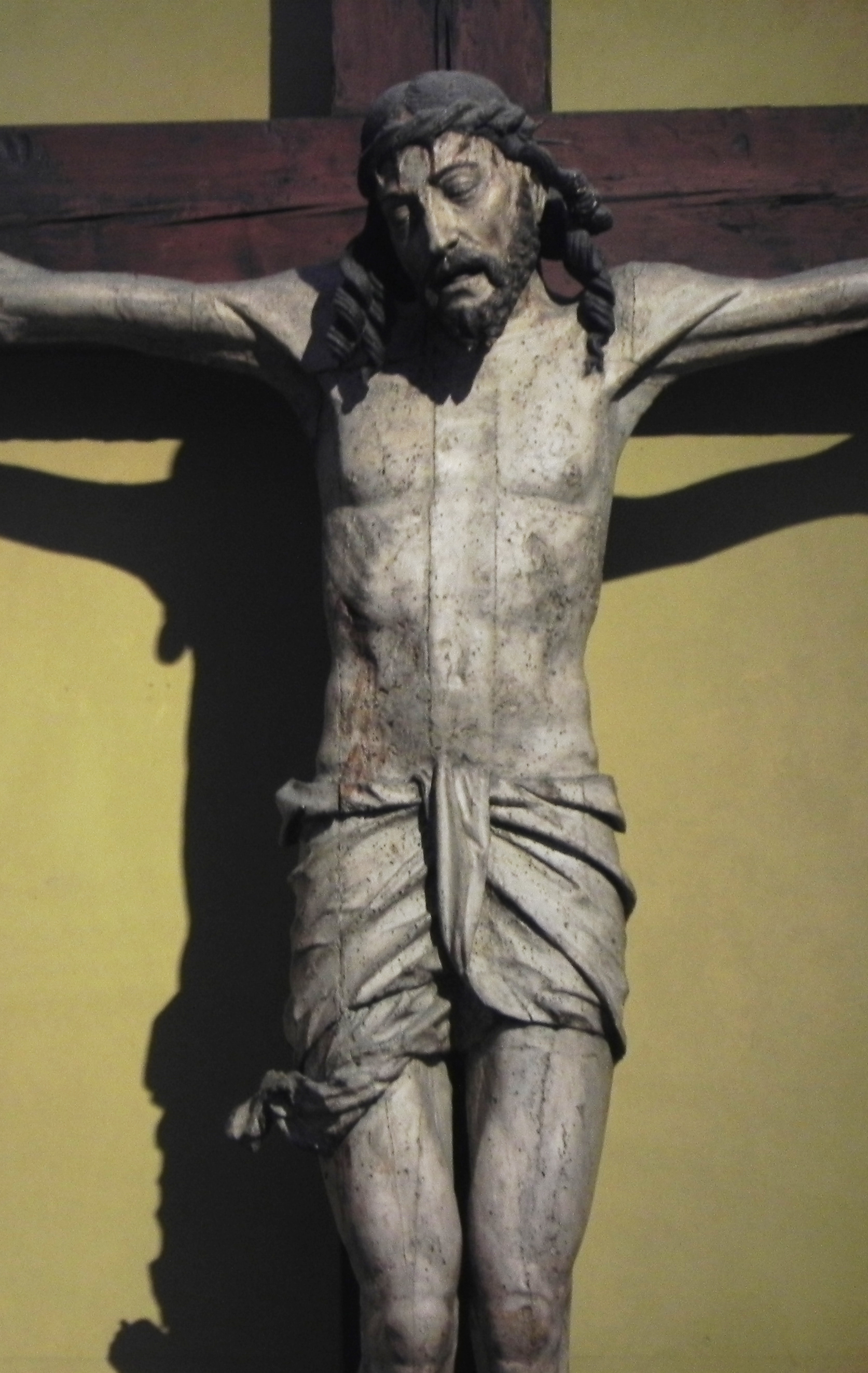 Francesco Giolfino "Crucifix", detail, Wood, 1502, Duomo Nuovo, Brescia